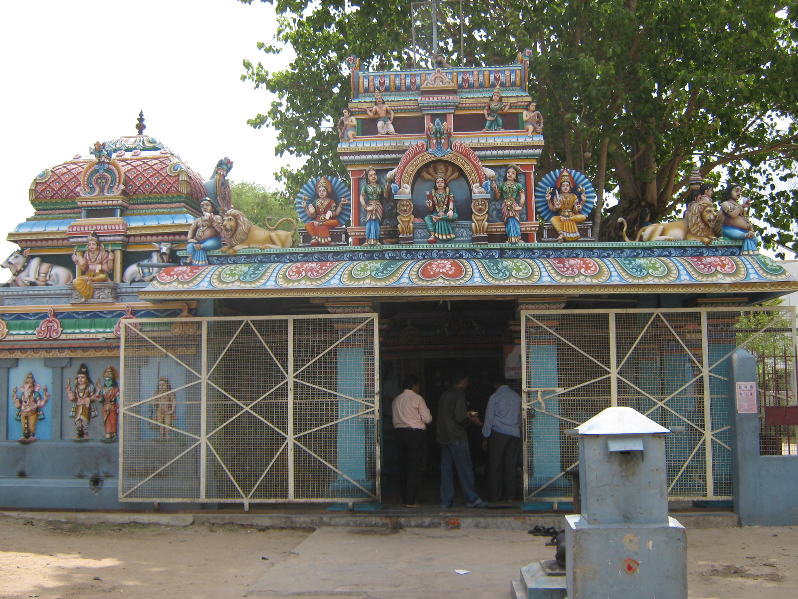 this is a temple very famous among the locals of minjur village and iys surroundings(chennai also).the main temple deity is amman named பச்சைஅம்மன் ..